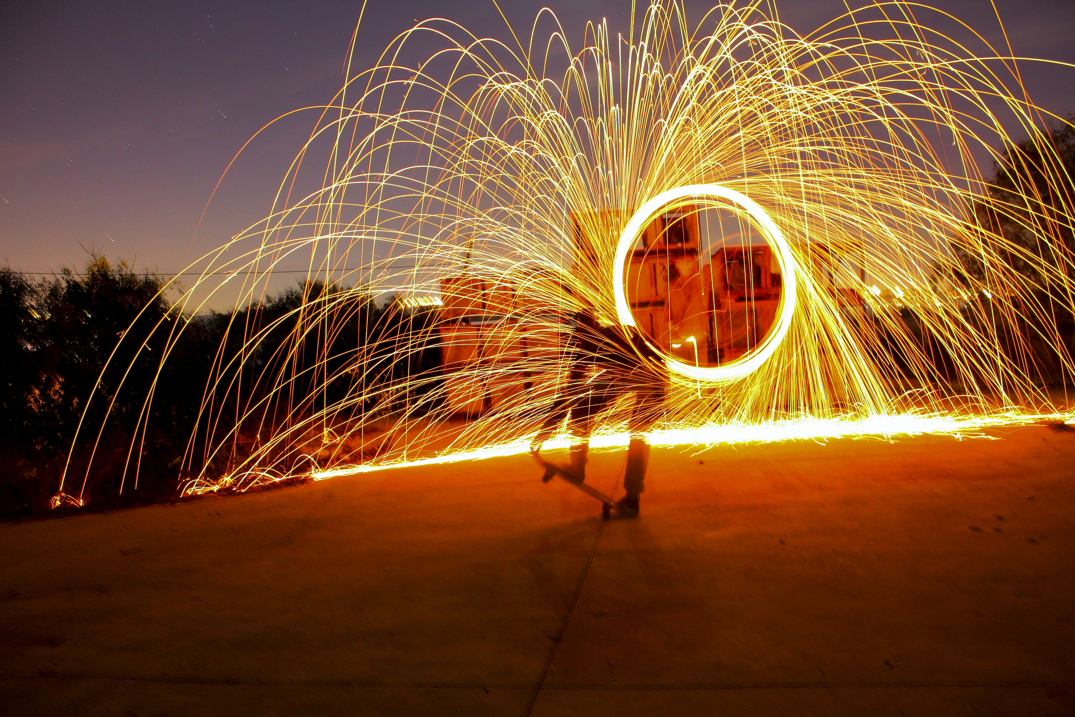 long exposure with steel wool